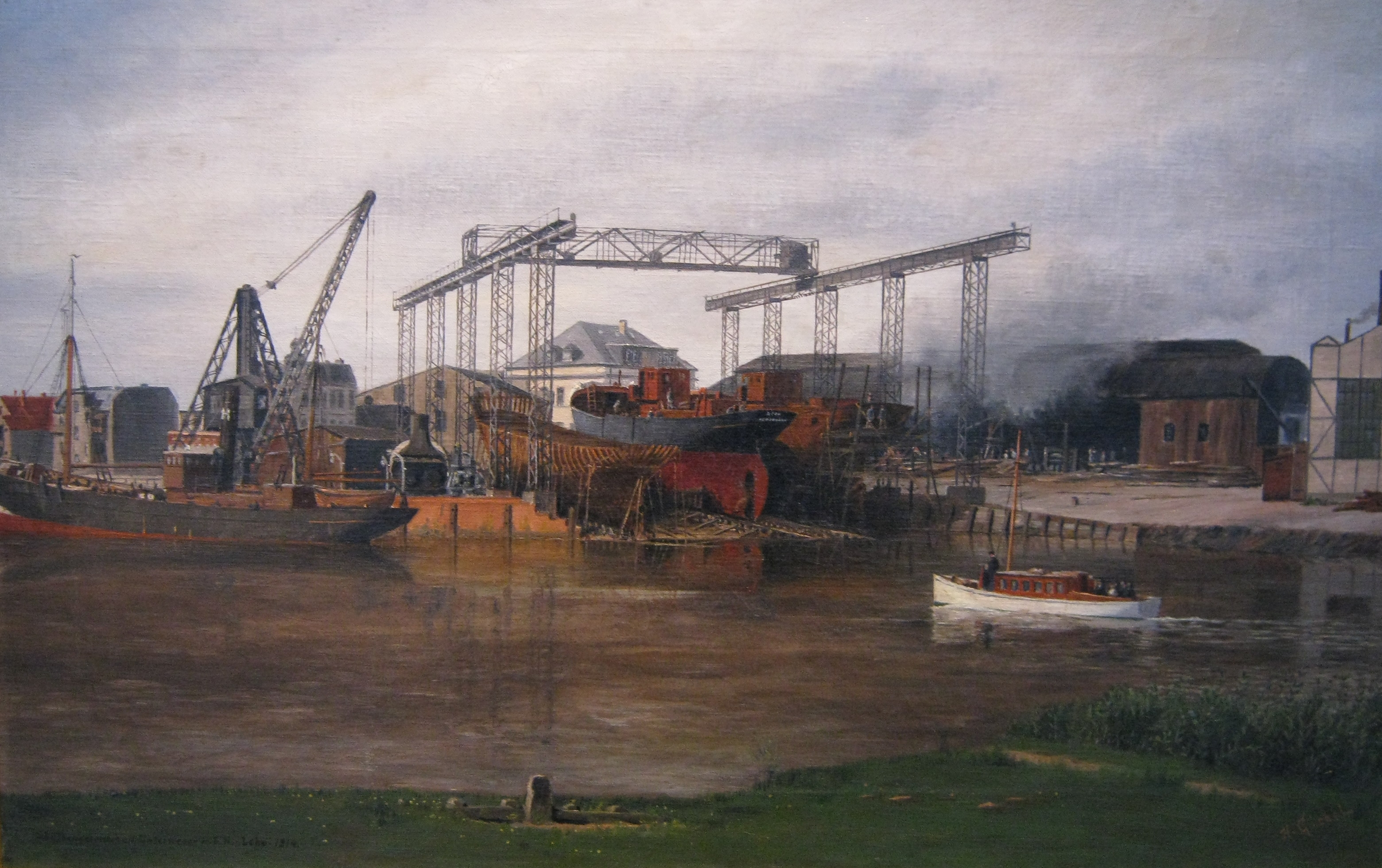 Schiffbaugesellschaft Unterweser